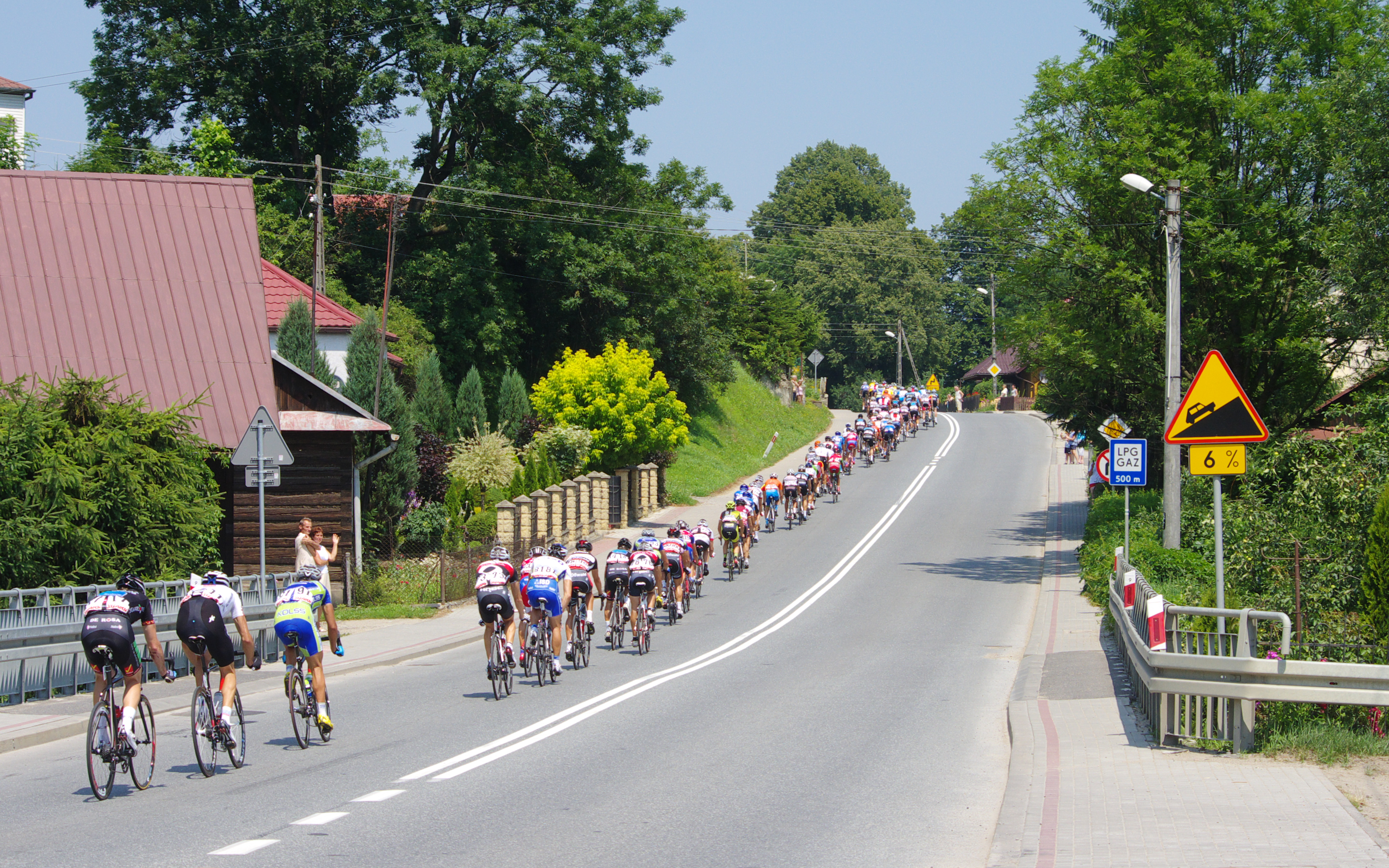 23rd Race of Solidarity and Olympics. This picture was taken on Grunwaldzka Street in Dynów, Poland.